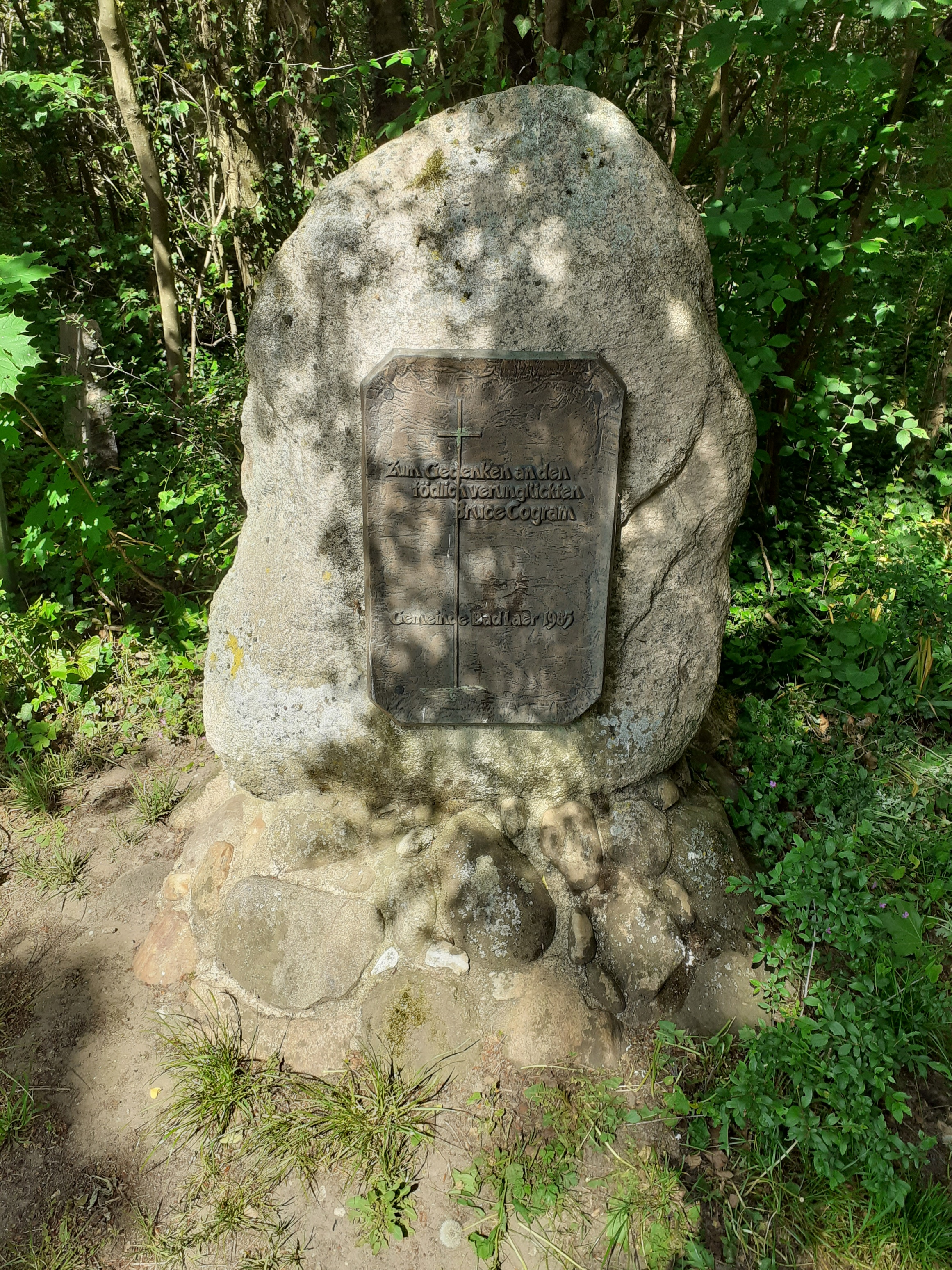 Memorial to the aircraft collision over Bad Laer